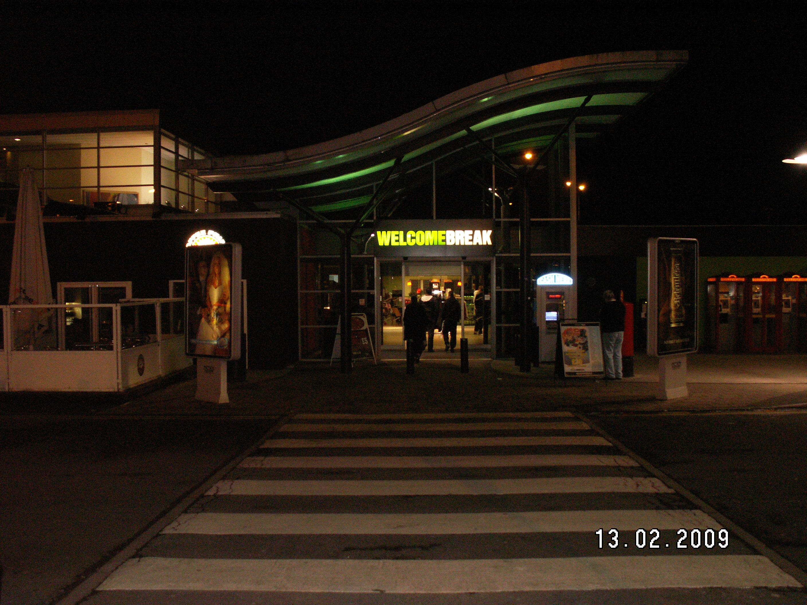 The front of Keele services at night.